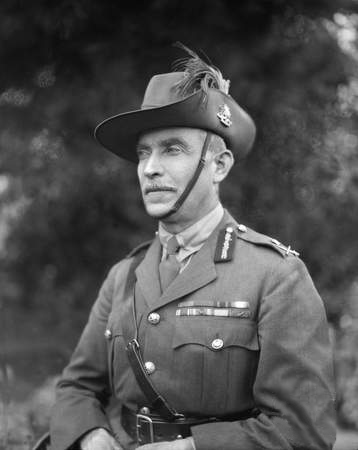 Portrait of General Sir Henry (Harry) George Chauvel GCMG KCB at Maribyrnong camp during the Citizen Military Force (CMF) (Light Horse) camp held there in March 1923.